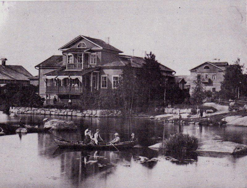 Yukspyaa (fin. Ykspää) farmstead, near Vyborg, Finland, at 1930's.